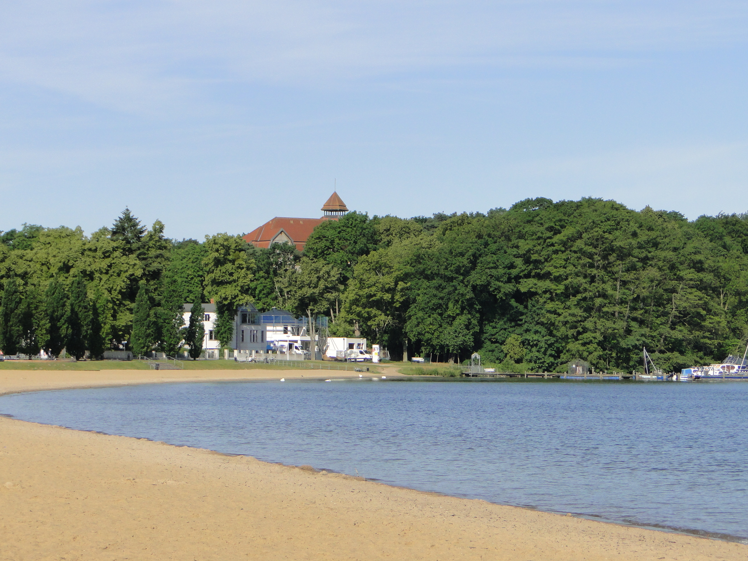 Zippendorf beach in Schwerin, Mecklenburg-Vorpommern, Germany, with the Spa Hotel Zippendorf in the back